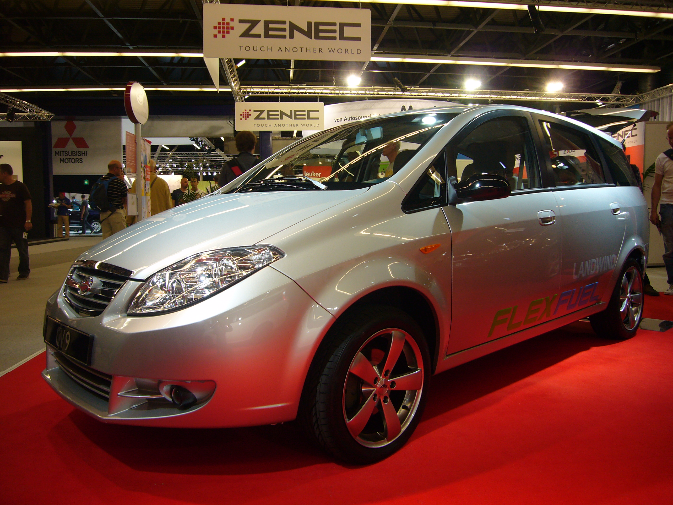 Landwind CV9 (Fengshang/Fashion in China) at AutoRAI Amsterdam 2011